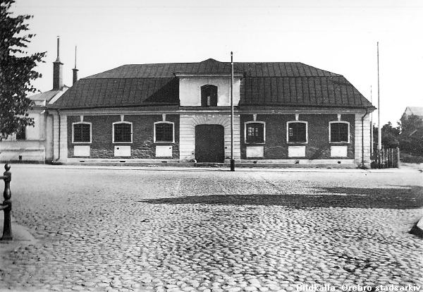 The stable of the county governor of Örebro county